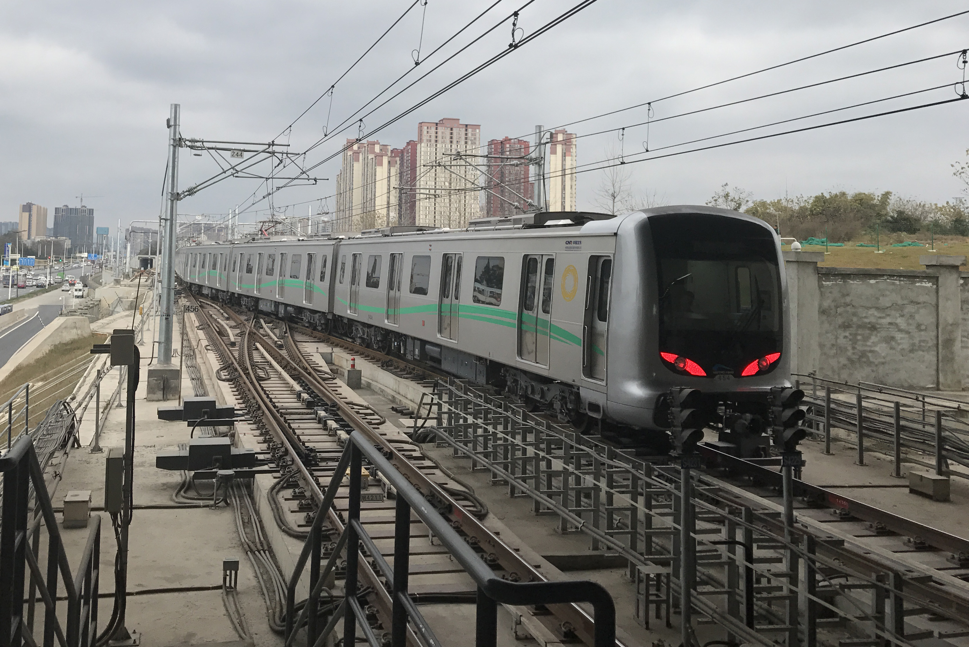 Line 4 Train Chengdu Metro. This photo was taken at Xihe Station.